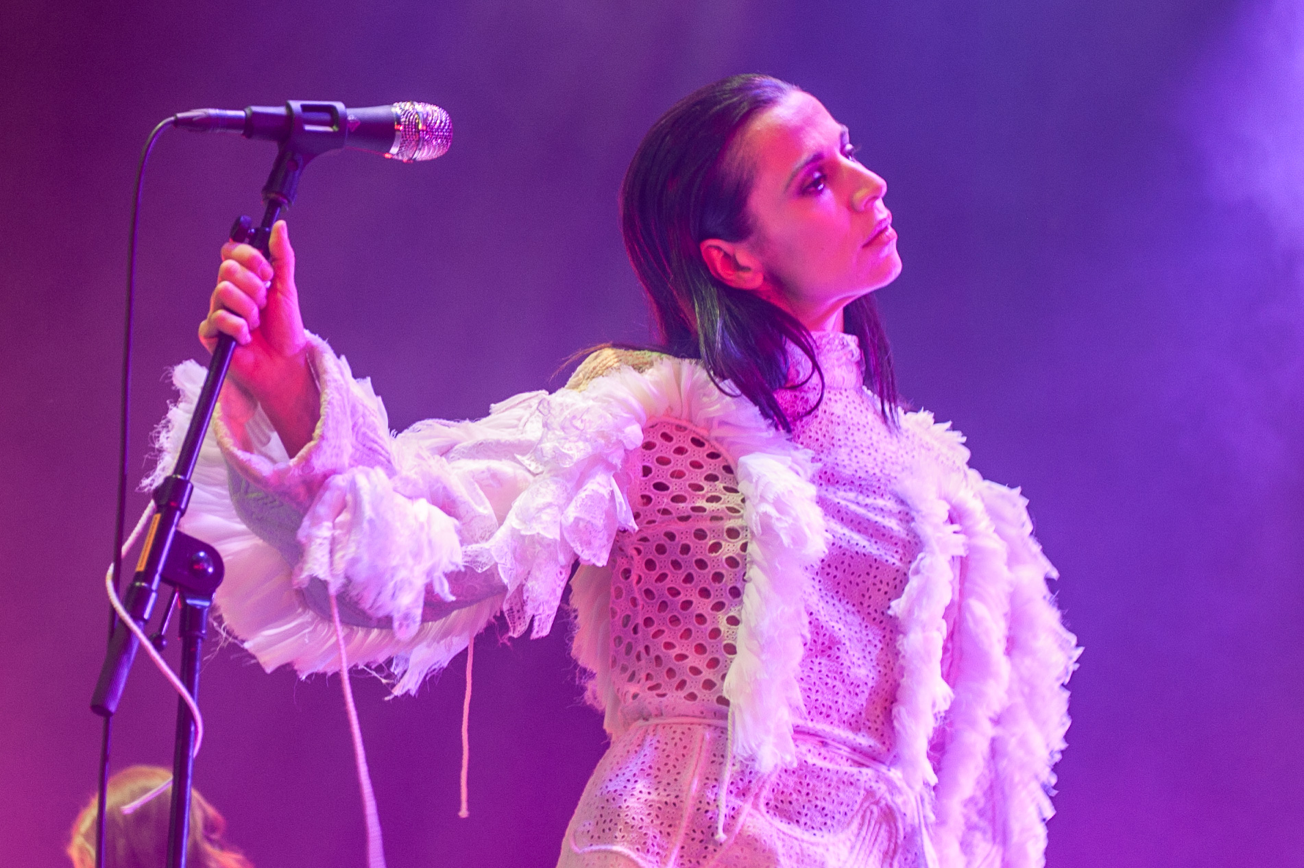 Manna performing at Flow Festival in Helsinki, August 14, 2015